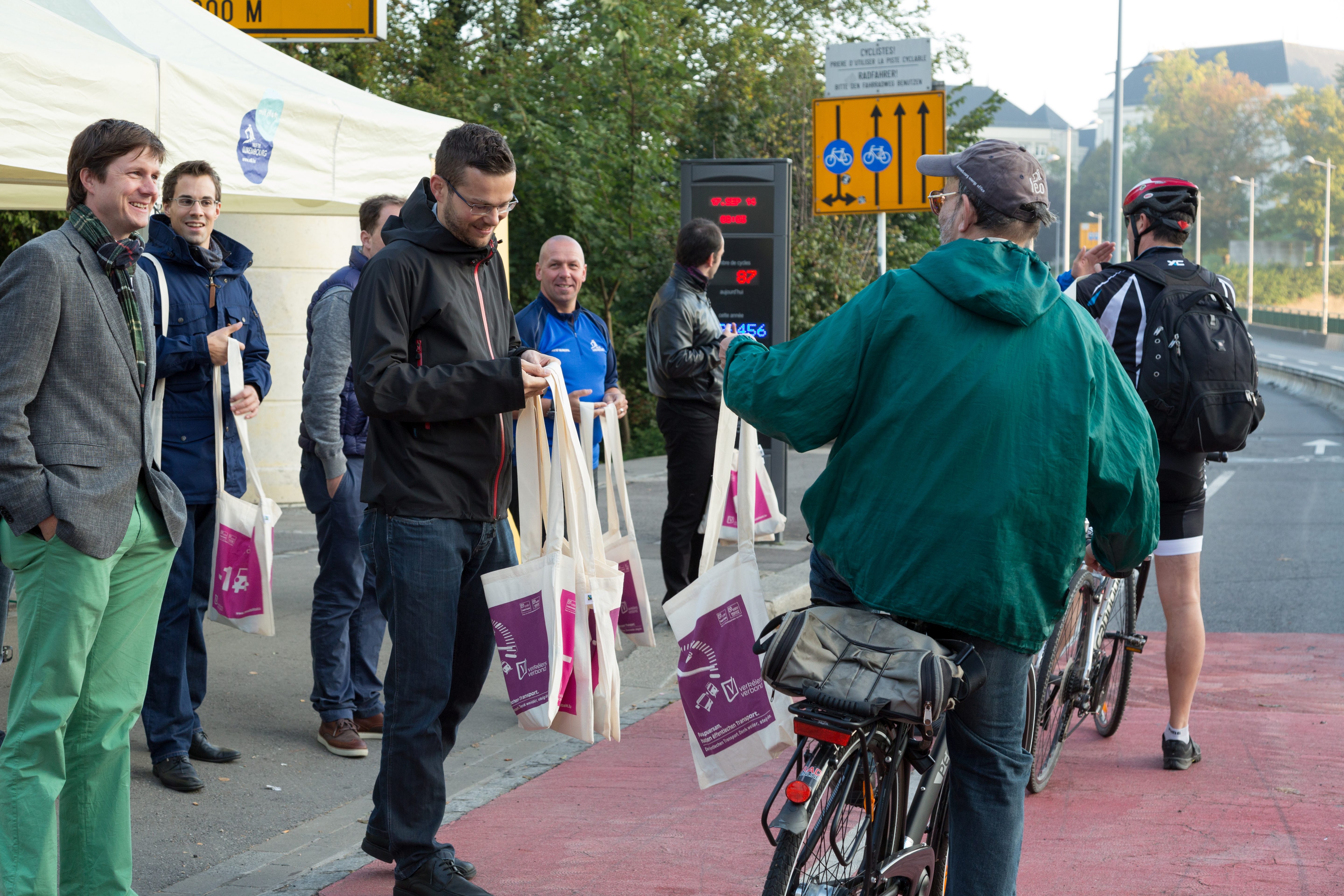 Luxembourg EMW campaigners hand out free gifts to cyclists in recognition of them practicing sustainable mobility.